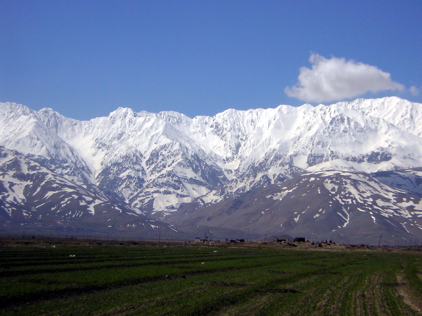 Azna - A View Of Oshtorankooh نمایی از اشترانکوه ازنا